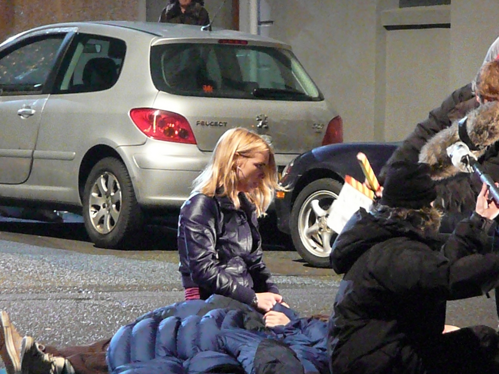 13th March 2008, filming Dr Who in Penarth, David Tennant, Billie Piper, Catherine Tate and John Barrowman were all there.